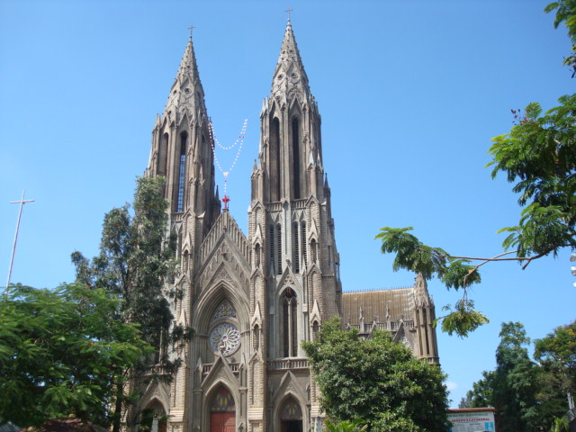 Ancient Church, Mysore